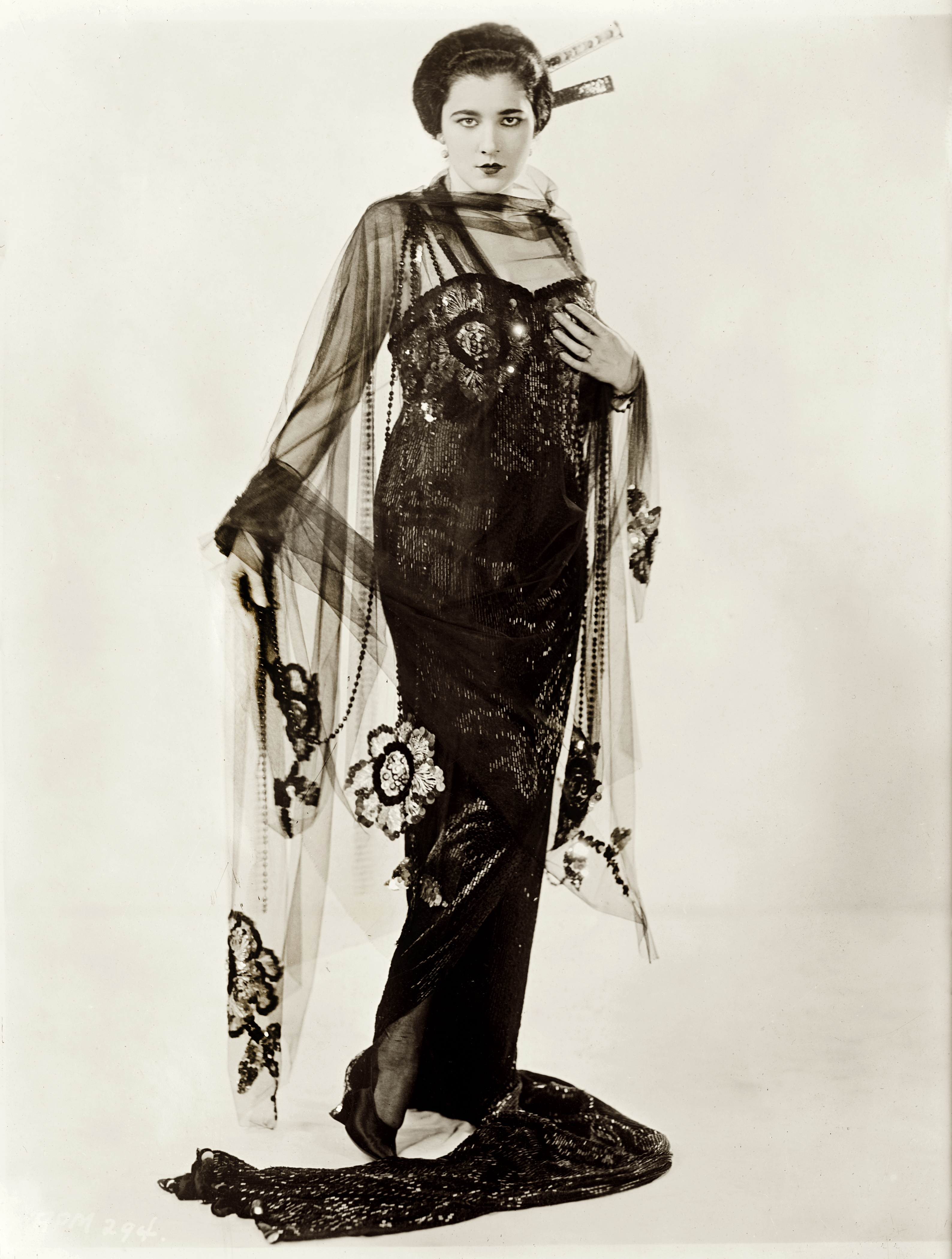 Actress Nita Naldi.